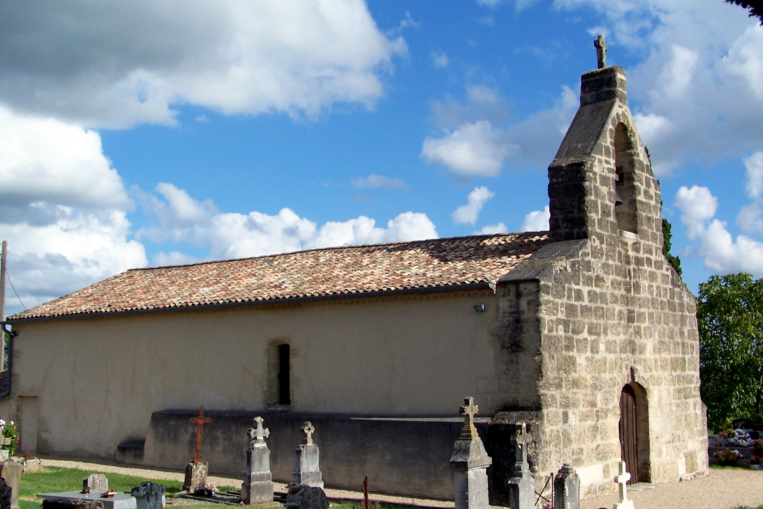 Church Saint-Martin of Neuffons (Gironde, France)